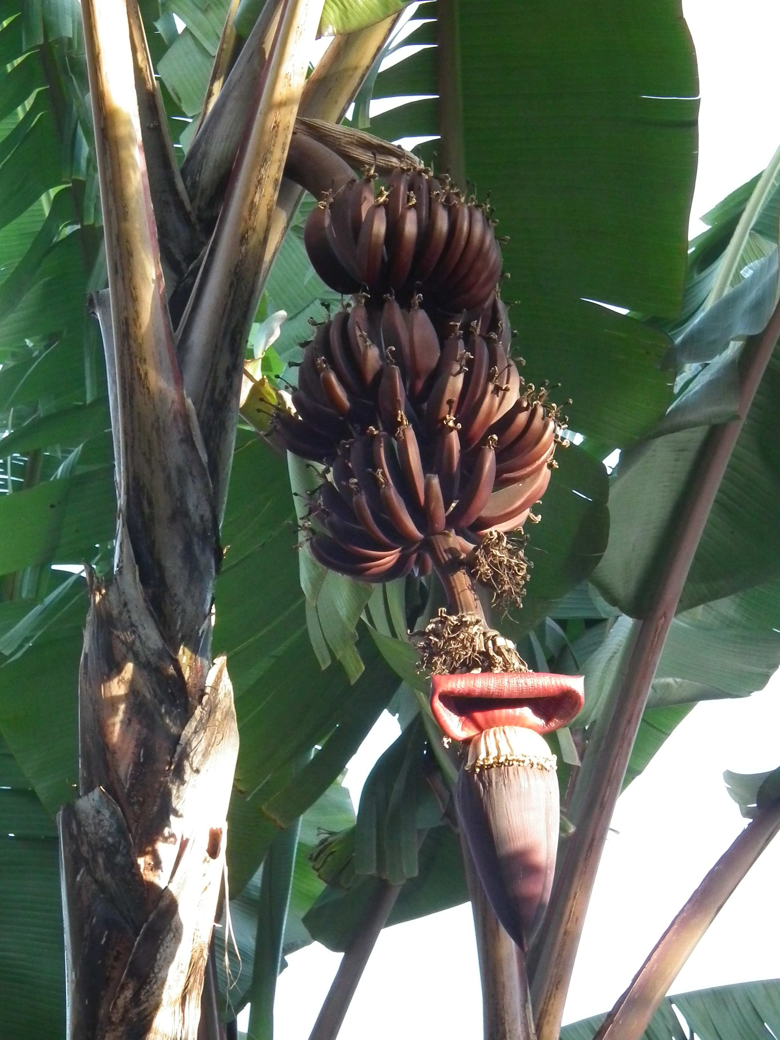 Red Banana, picture taken in Tanzania Fruits and flower